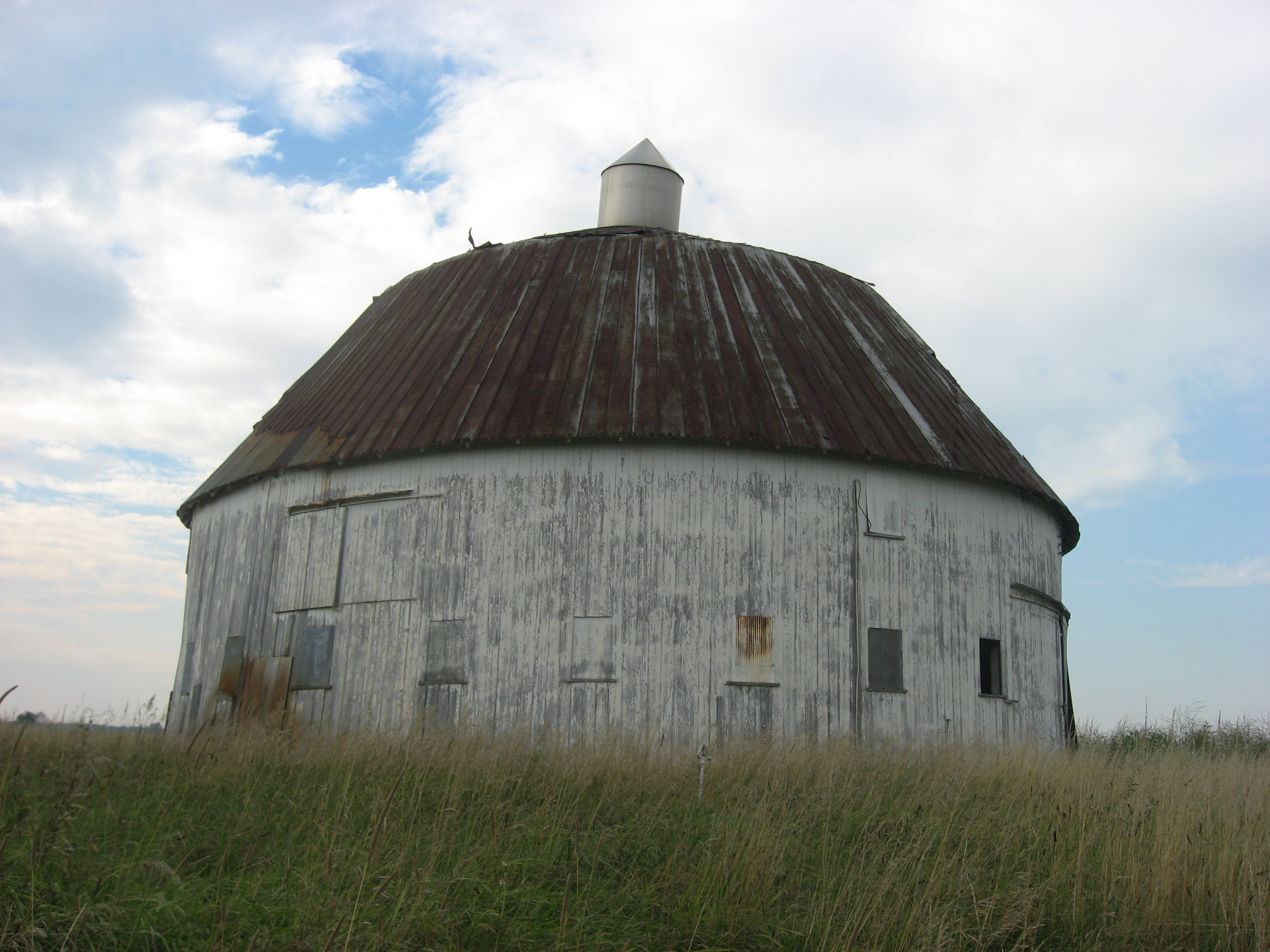 View from the southeast of the William Sinn Round Barn, located along the northern side of Township Road 168 northeast of Paulding in Emerald Township, Paulding County, Ohio, United States. Built in 1911, it is listed on the National Register of Historic Places.